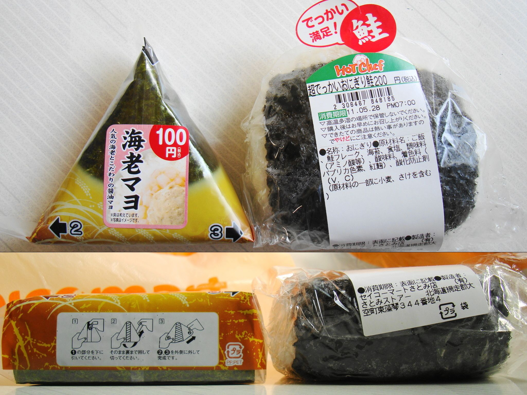 Seicomart "Onigiri"